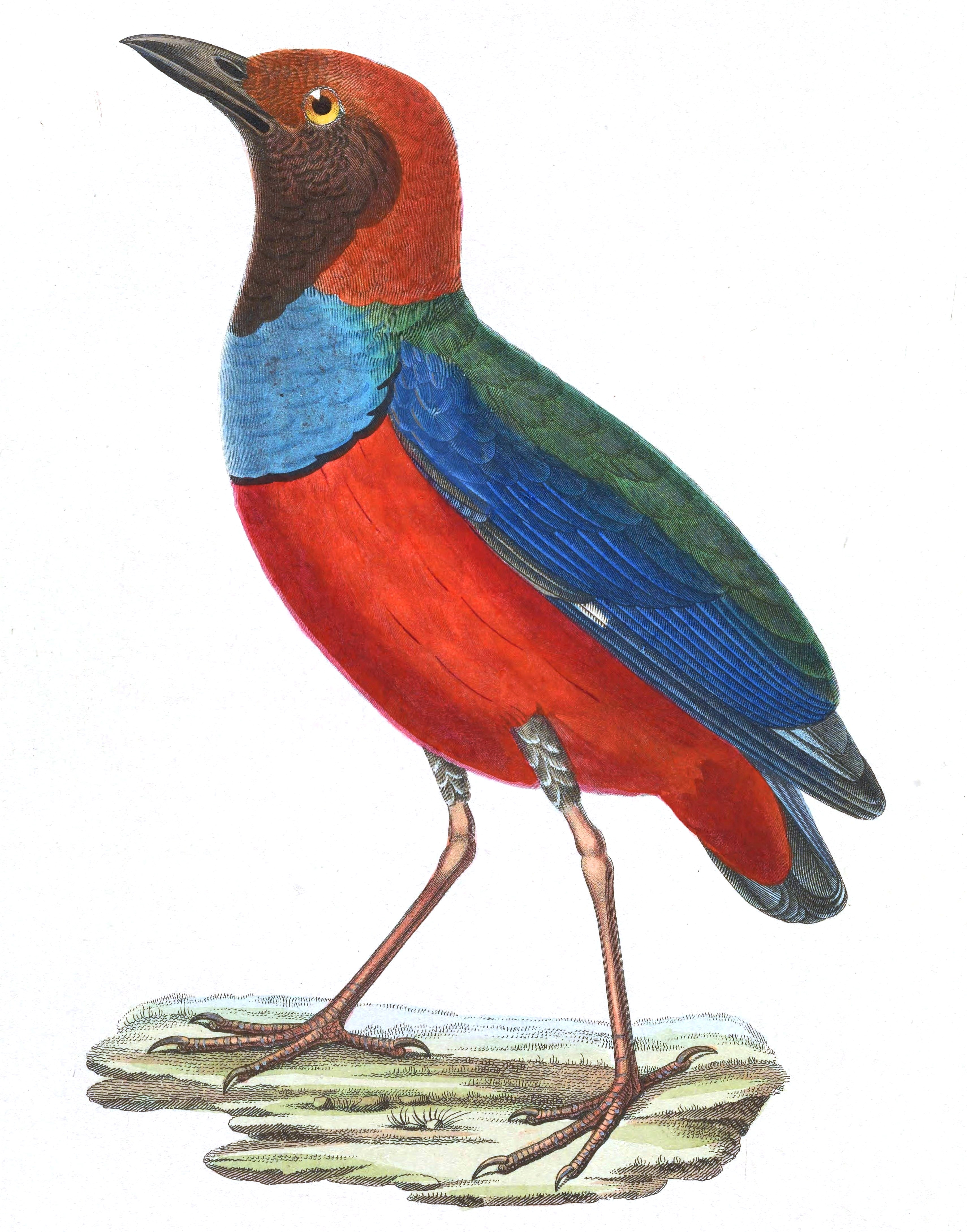 « Pitta mackloti » = Erythropitta erythrogaster macklotii (Subspecies of Red-bellied Pitta) - adult male